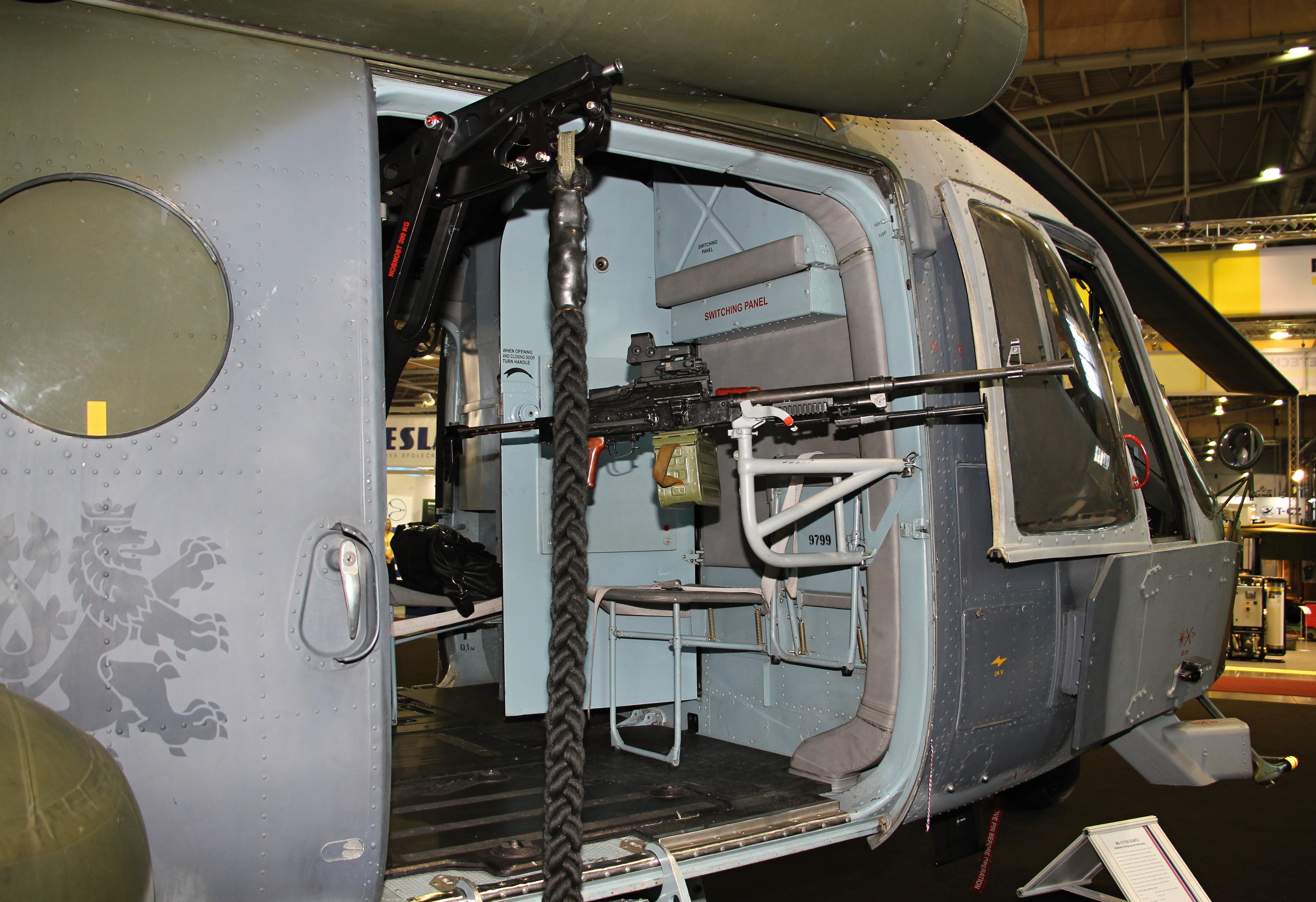 PKM machine-gun and a Fast Rope in the Mi-171Š sliding door. IDET 2017, Brno Exhibition Center, Czech Republic.